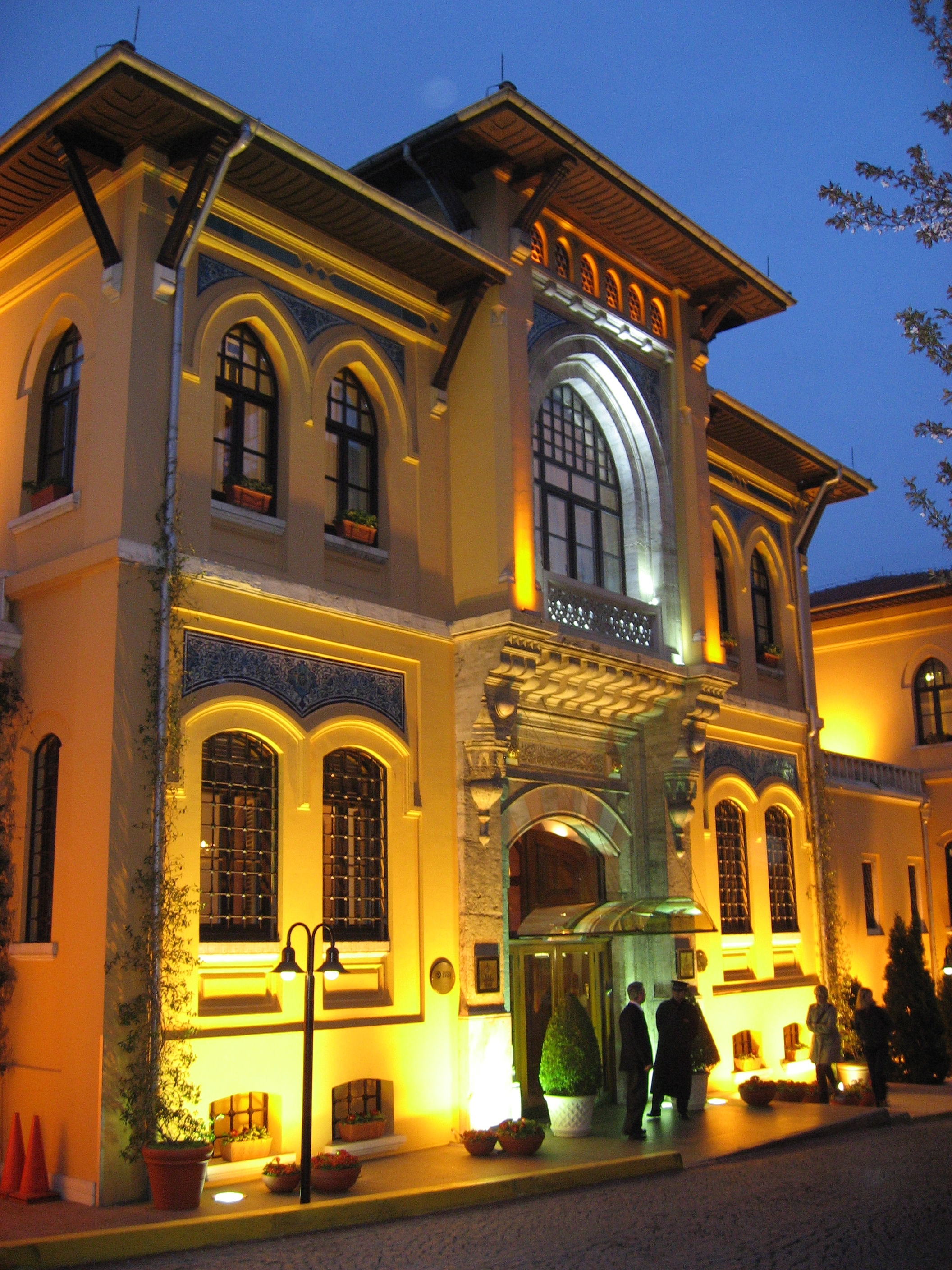 The Four Seasons Hotel in Sultanahmet, a former Ottoman jail next to the Hagia Sophia.